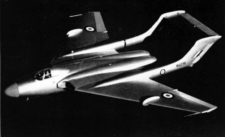 The prototype De Havilland DH.110 (s/n WG236) in flight. WG236 made its first flight on 26 September 1951. The aircraft's performance exceeded expectations, and by the following year it was regularly flying faster than the speed of sound. However, tragedy struck while the aircraft was being demonstrated at the Farnborough Airshow on 6 September 1952. Following a demonstration of its ability to break the sound barrier, the aircraft disintegrated, killing 31 people, including the crew of two, test pilots John Derry and Tony Richards. The failure was traced to faulty design of the end sections of the main spar, which resulted in the outer ends of the wings shearing off during a high-rate turn.